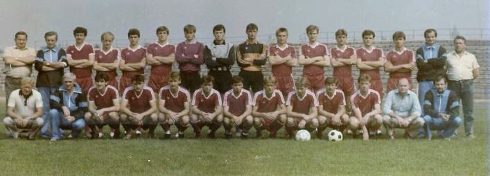 Motor Lublin team in the 1989/1990 season. Standing row from left: W. Król – President, P. Kowalski – coach, K. Korczyk, M. Banaszek, Zbigniew Grzesiak, J. Dec, A. Graniczka, Dariusz Opolski, A. Mazur, Marek Sadowski, R. Zuchnik, S. Wojtowicz, G. Komor, P. Tomaszewski, W. Wiater – Coach assistant, J. Demczuk – Vice President. Lower Row from the left: Z. Brzozowski- Section director, T. Kominski – team director, M. Prokop, J. Grodek, P. Tylki, M. Szaniawski, J. Zych, ... .